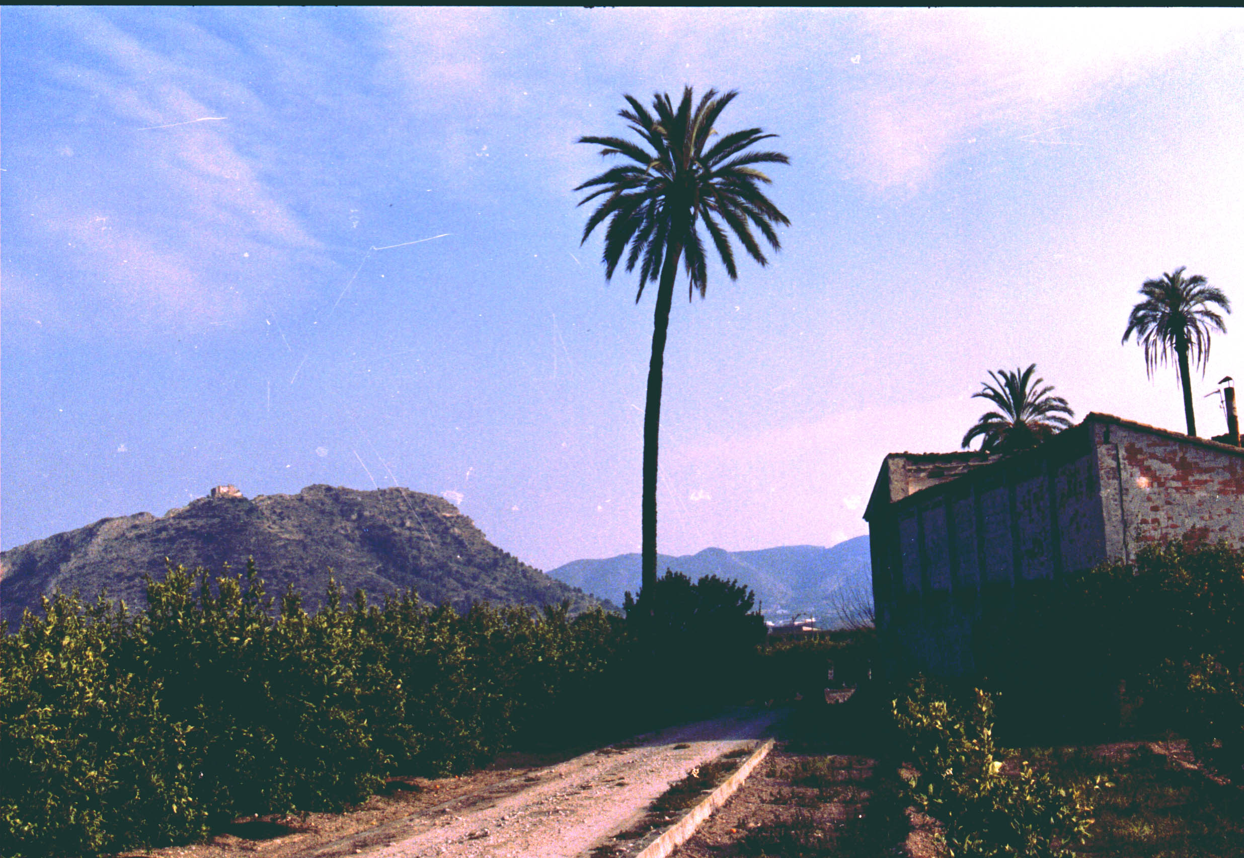 palm in Garden of Xativa Valencia